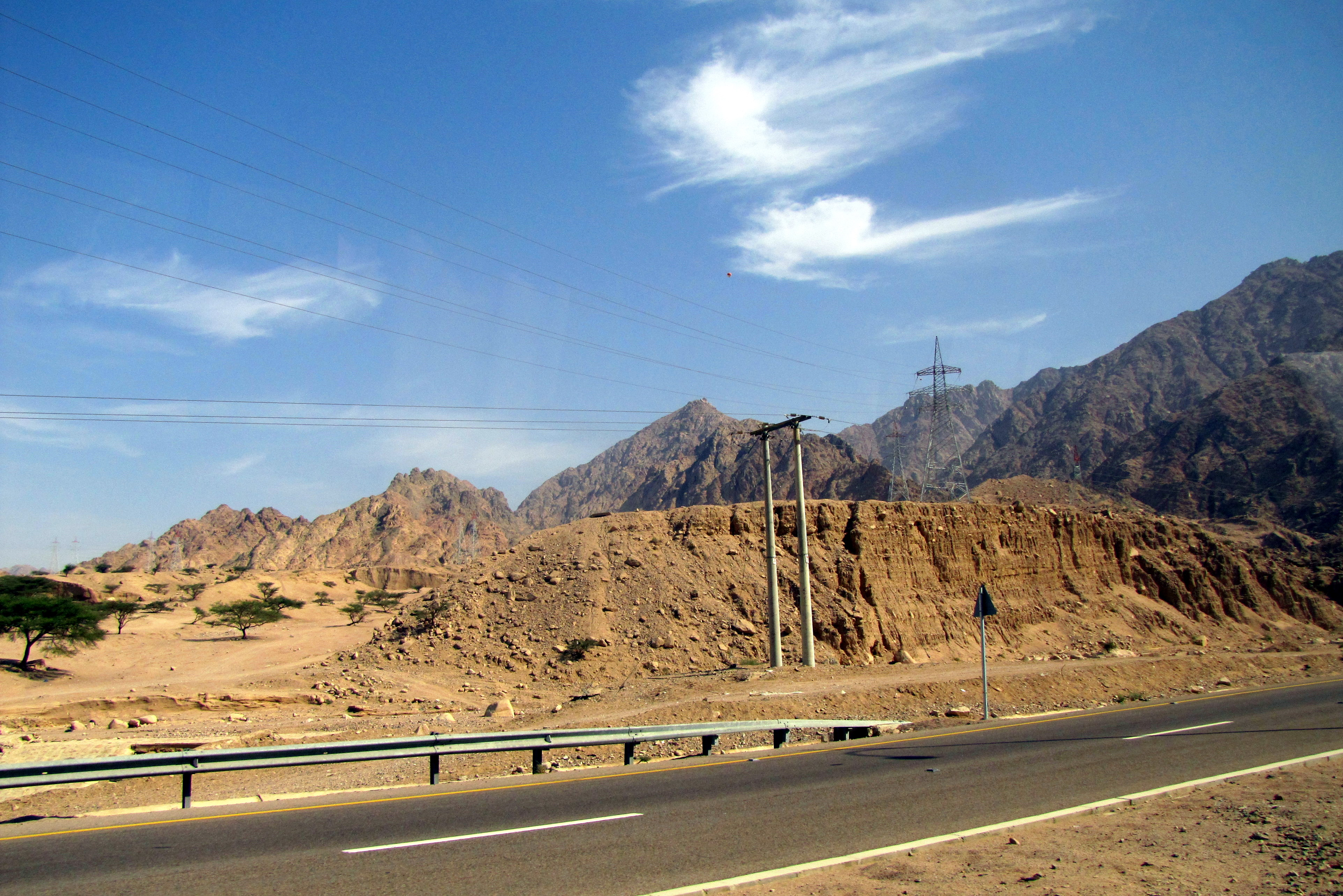 Petra–Jordan Travel – October 2009